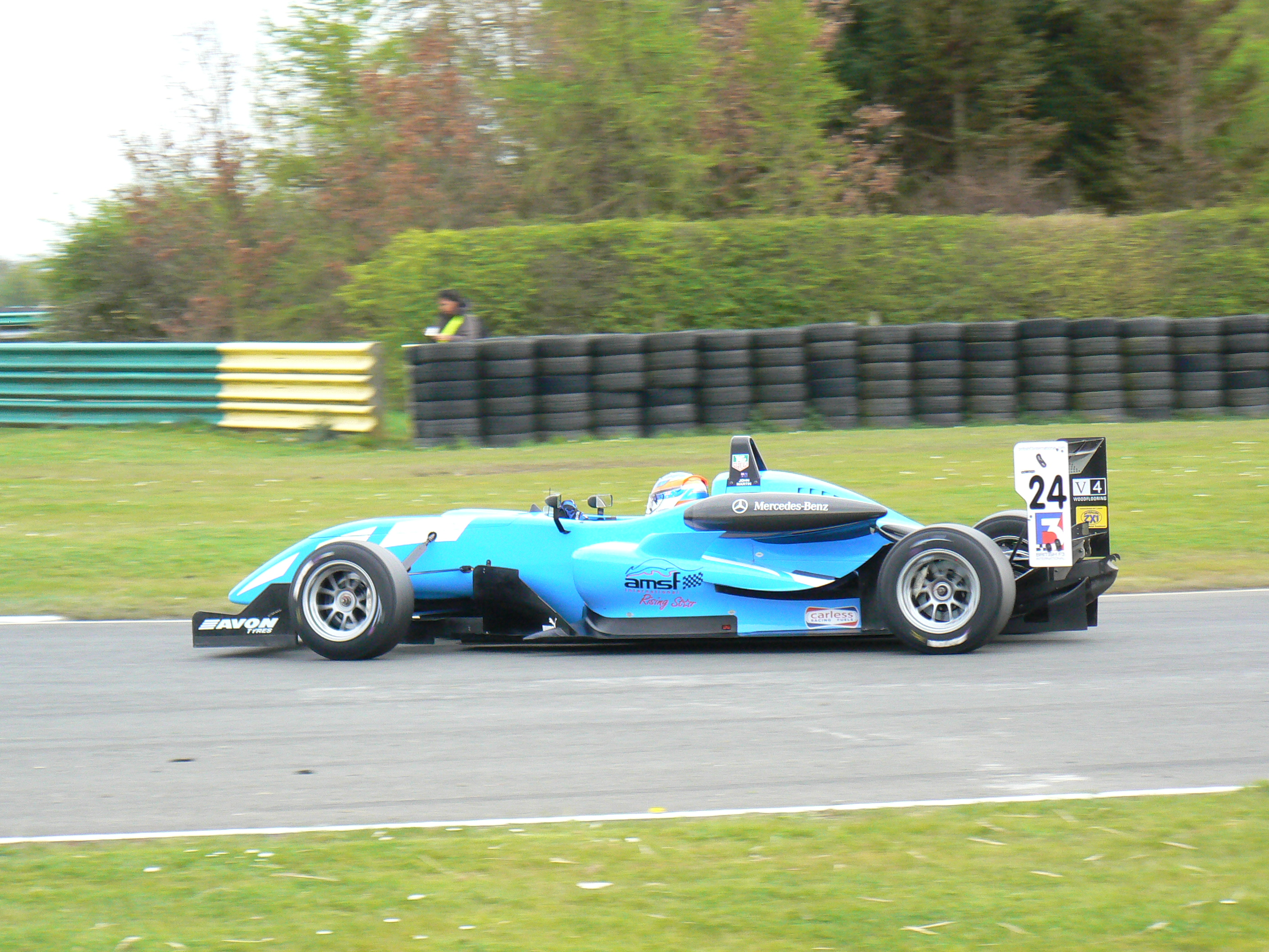 John Martin driving for Räikkönen Robertson at the Croft round of the 2008 British Formula Three Championship.